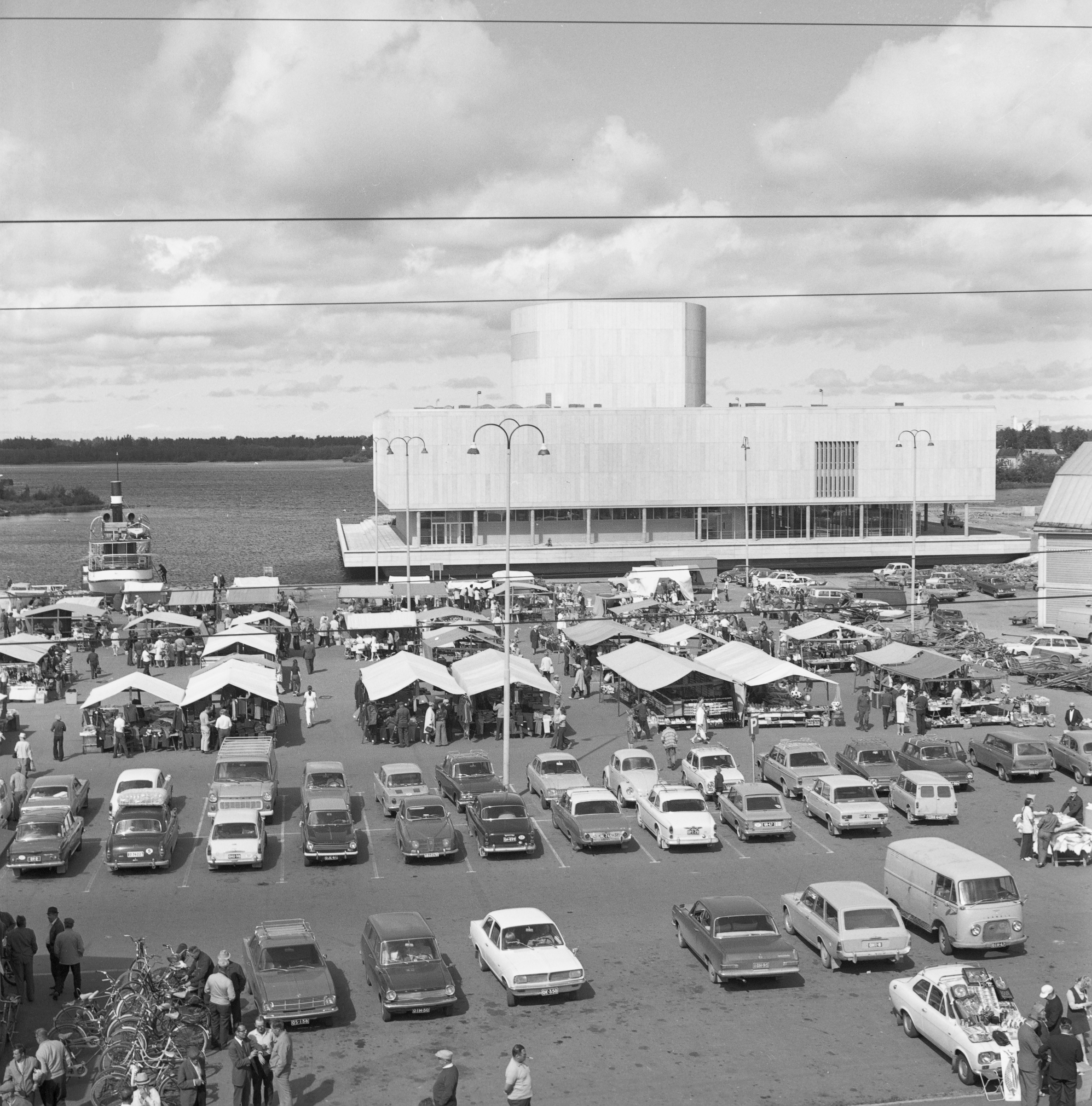 Oulu Market Square